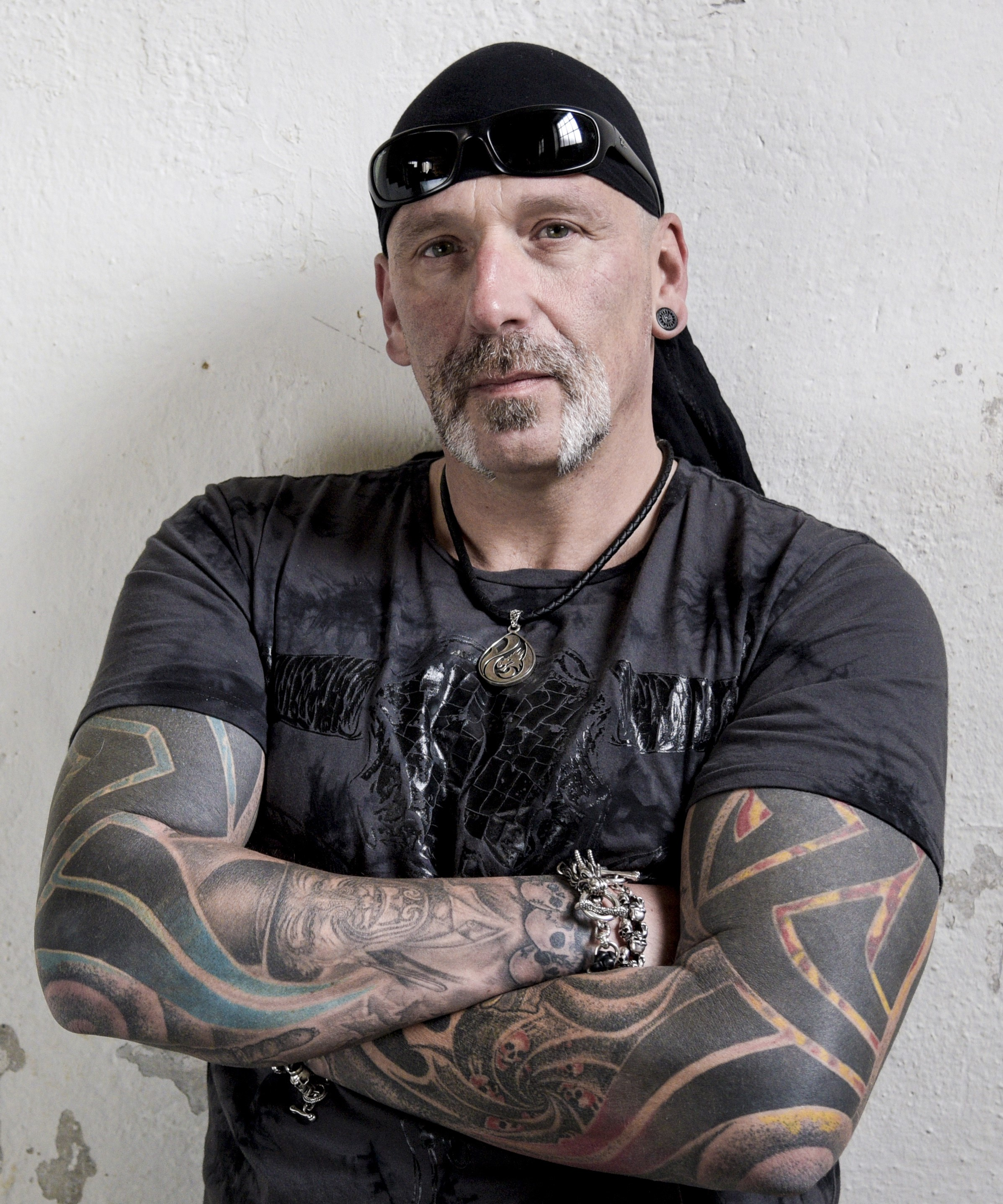 Rainer Biesinger